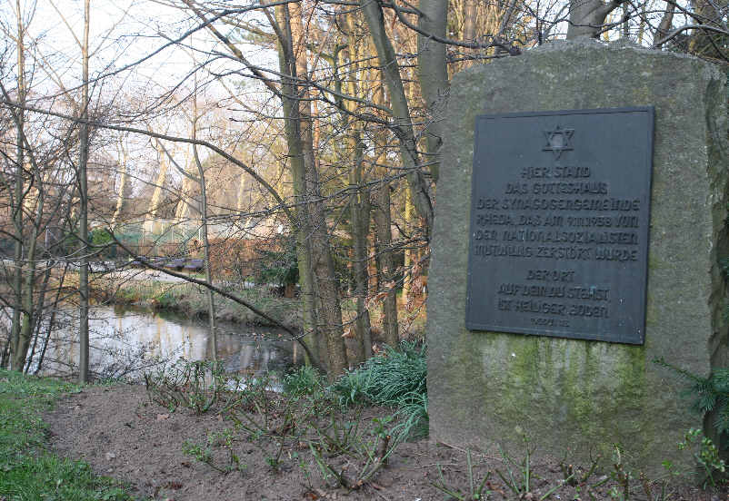 Former Synagoge, Rheda, Germany